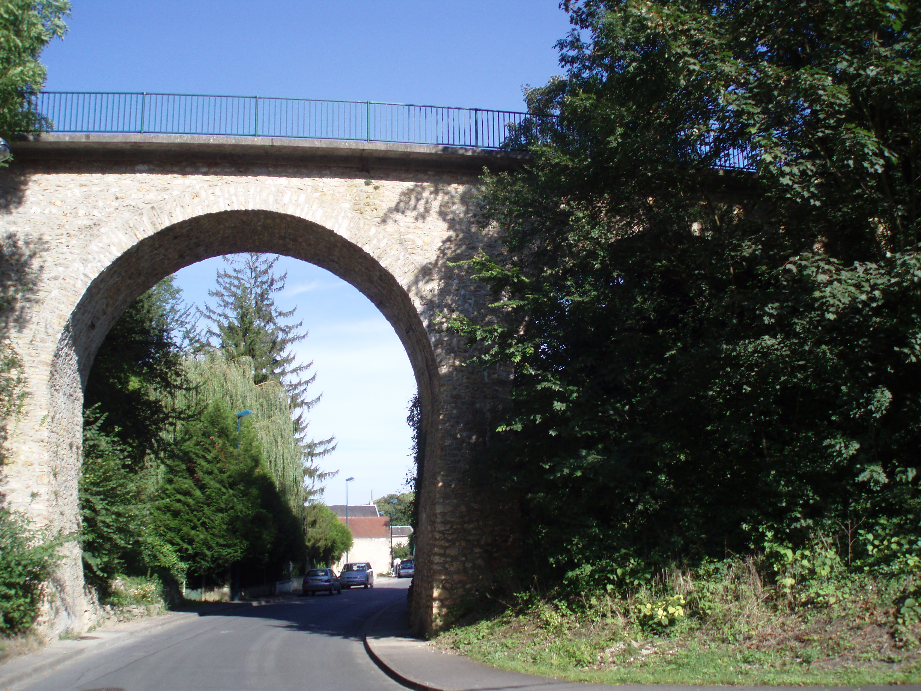 Bridge of the Pontoise-Poissy train line in Vauréal, rue de Puiseux. A similar bridge can be found not far from the first one, in the South, rue des Marais. Camera/Appareil Photo numérique: Olympus micro700